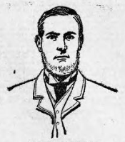 David Holmes, President of the Northern Counties Amalgamated Association of Weavers, while attending the 1895 Trades Union Congress